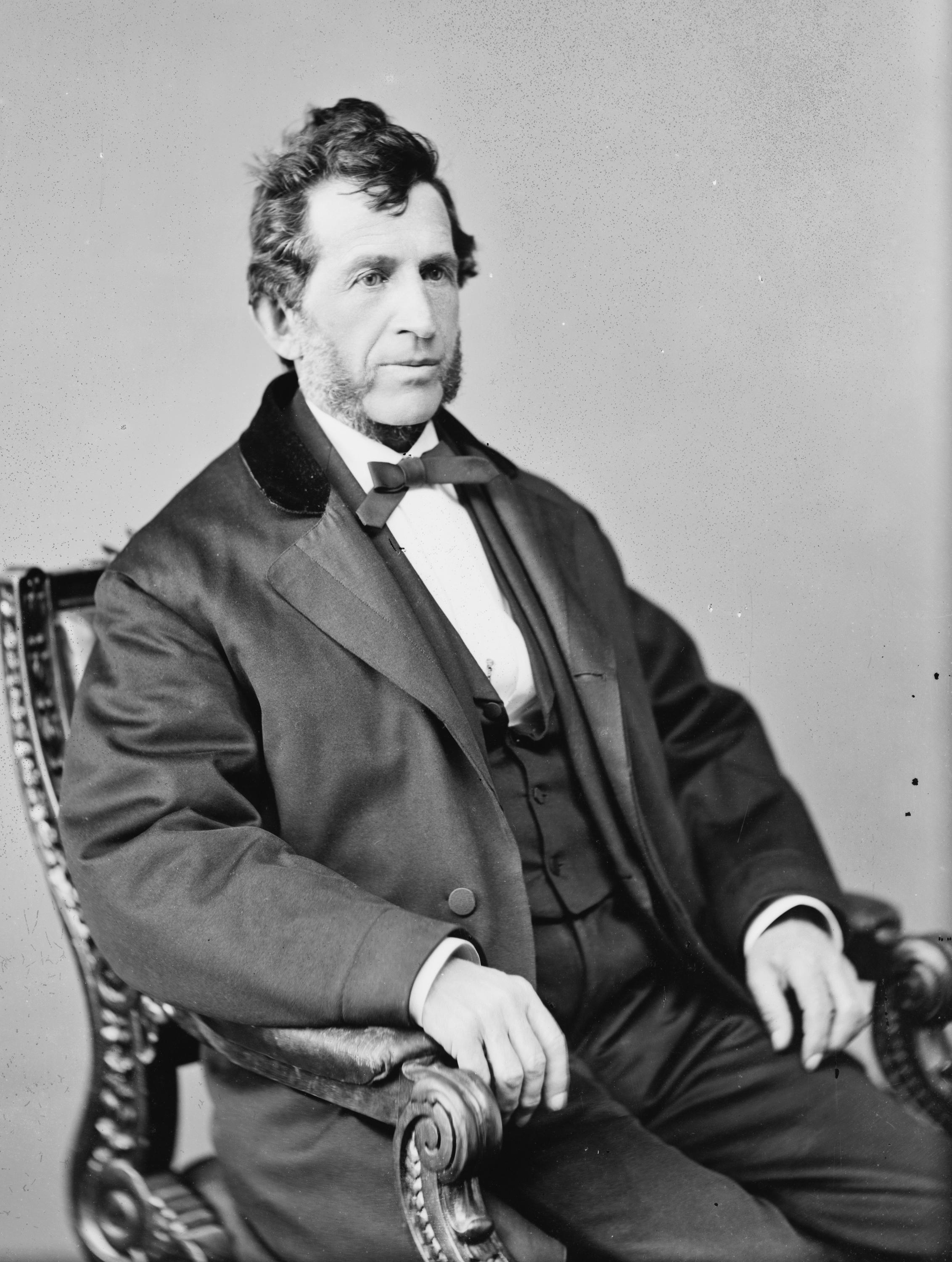 Abraham Herr Smith. Library of Congress description: "Smith, Hon. Abraham Herr of Pa.".